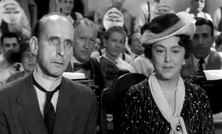 Philip Coolidge & Florence Eldridge in Inherit the Wind - trailer (cropped screenshot)